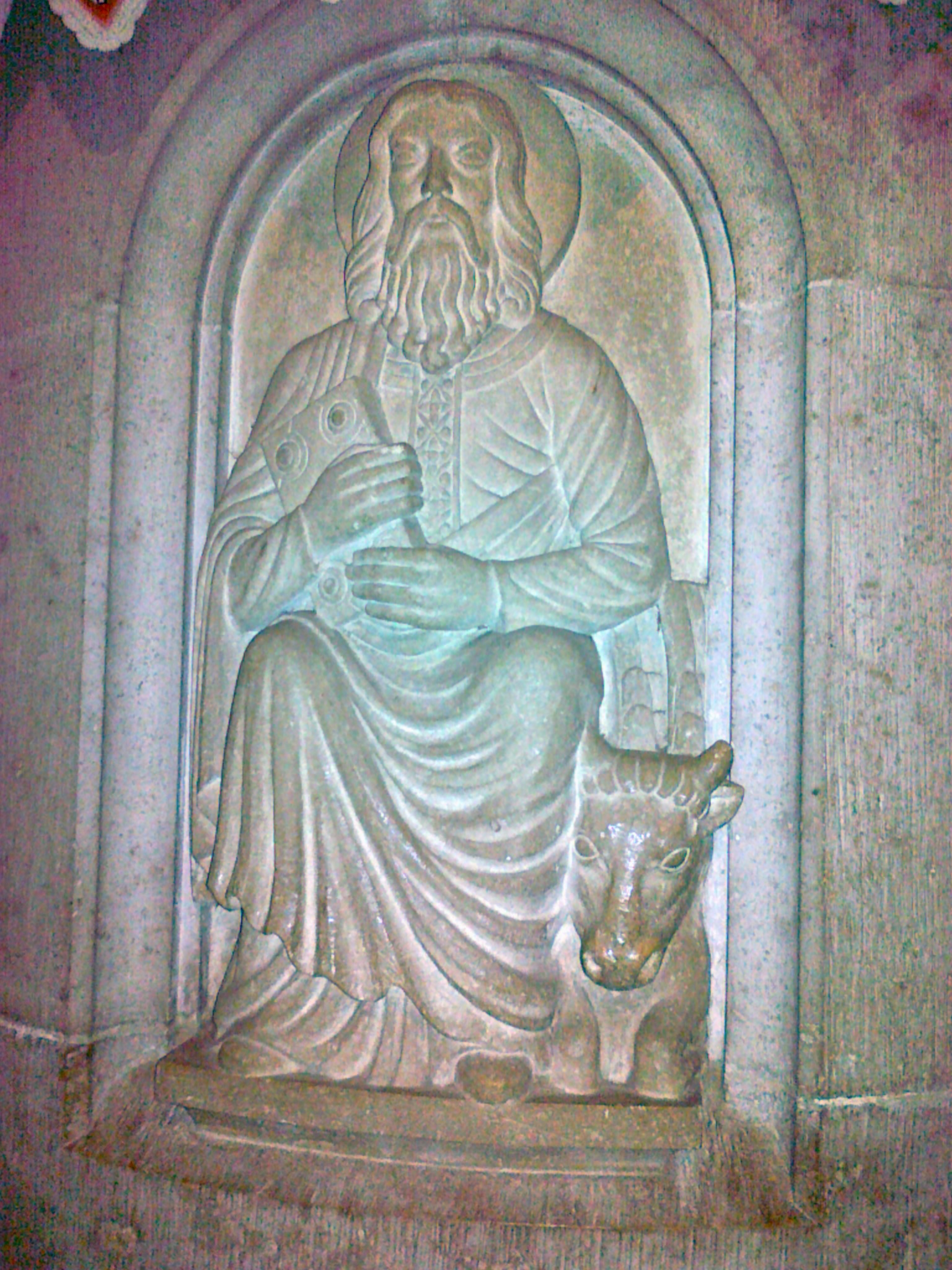 Saint Luke in the Church of Ják in Hungary.